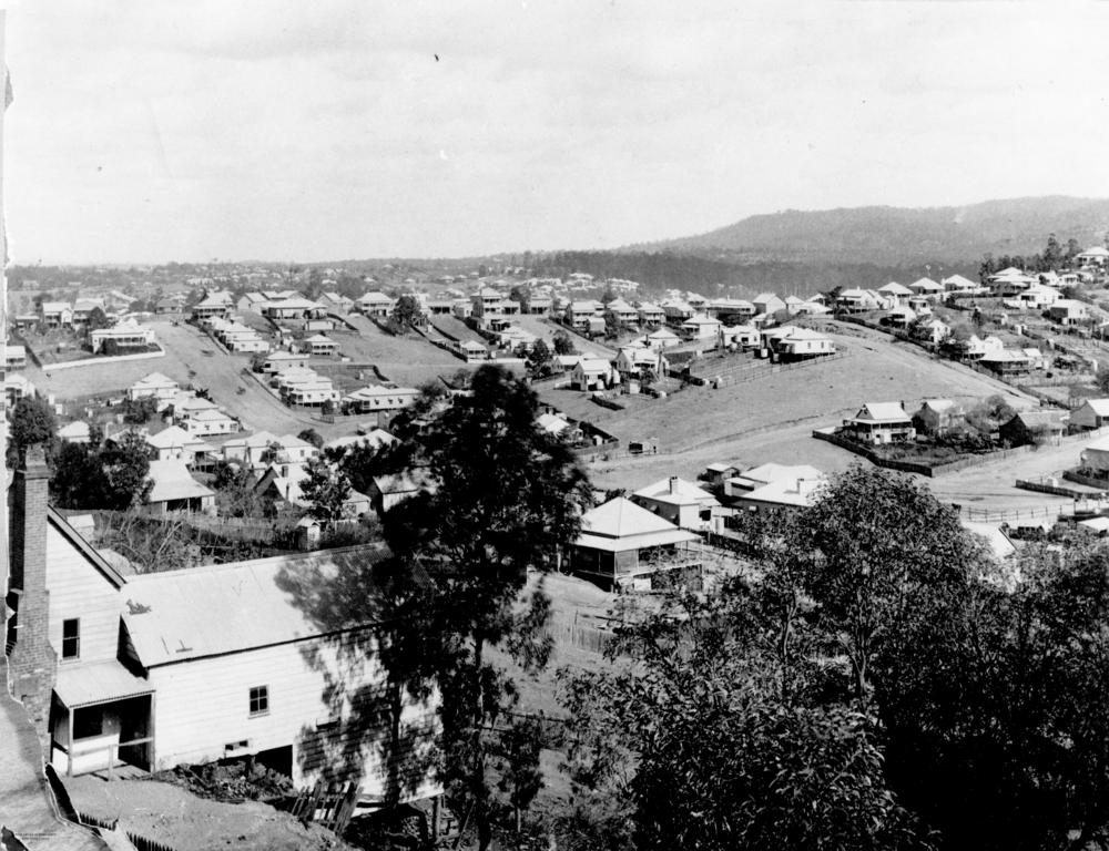 Houses of Paddington, Brisbane, ca. 1902. View of the houses of Paddington from Red Hill, looking towards the intersection of Given and Latrobe Terraces. The hilly terrain of the area is featured in this image.